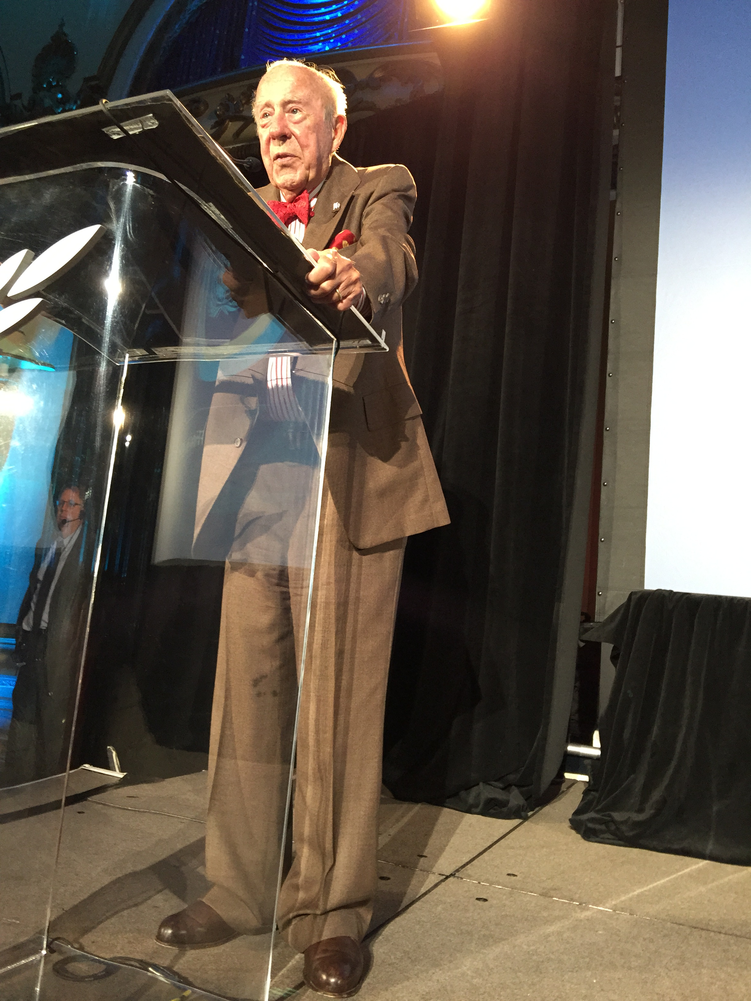 George Pratt Shultz (born December 13, 1920) is an American economist, statesman, and businessman. He served as the United States Secretary of Labor from 1969 to 1970, as the director of the Office of Management and Budget from 1970 to 1972, as the U.S. Secretary of the Treasury from 1972 to 1974, and as the U.S. Secretary of State from 1982 to 1989.